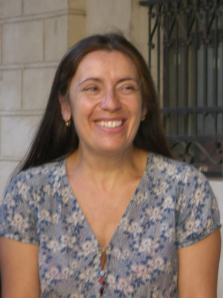 A woman from from Viareggio, Italia